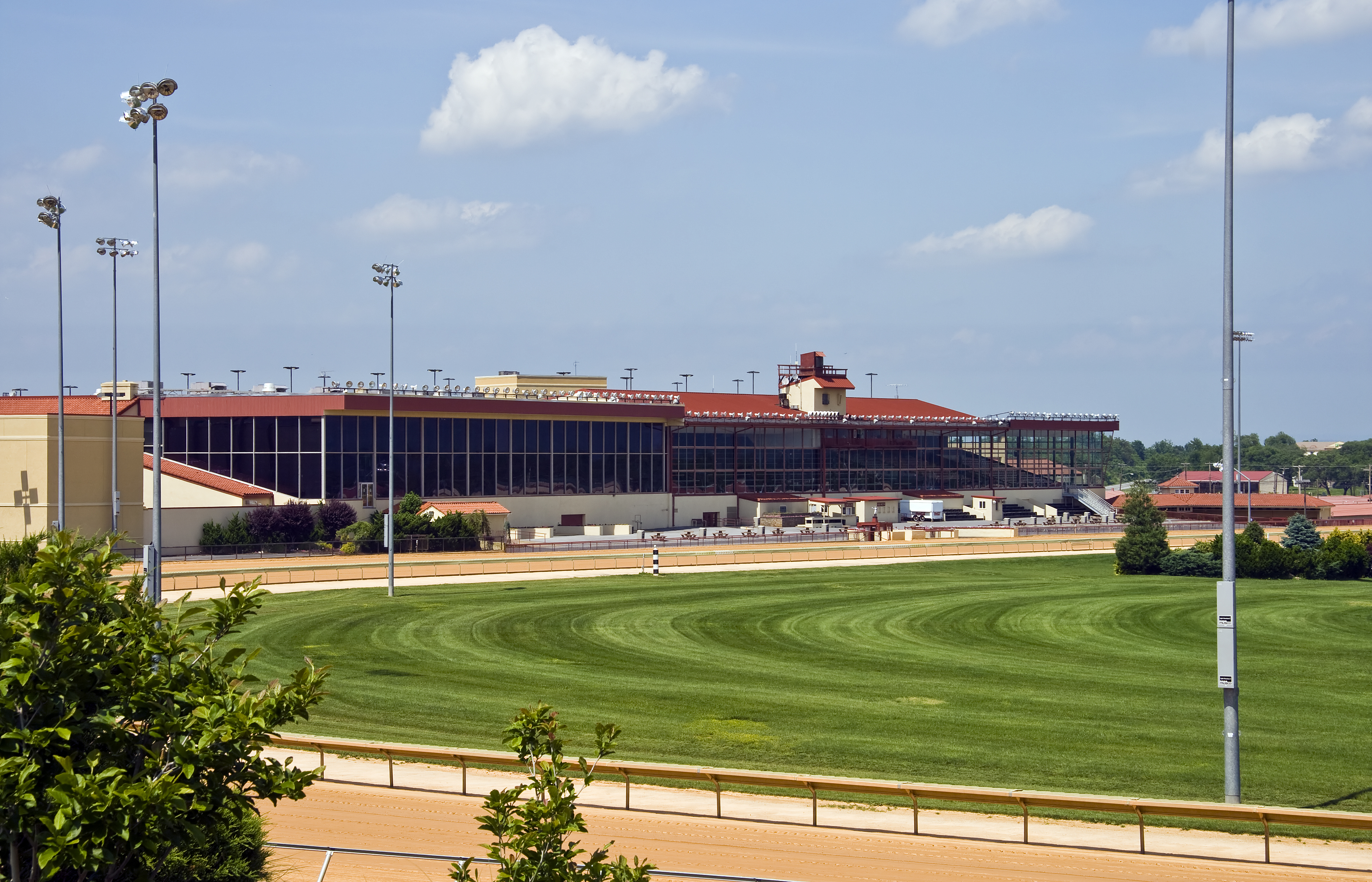 Charles Town Races at Charles Town, West Virginia, USA